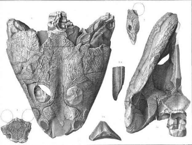 An illustration of the skull of Trimerorhachis insignis by Edward Drinker Cope, published posthumously in 1915 in Hitherto unpublished plates of Tertiary Mammalia and Permian Vertebrata Volume 3 Part 2.